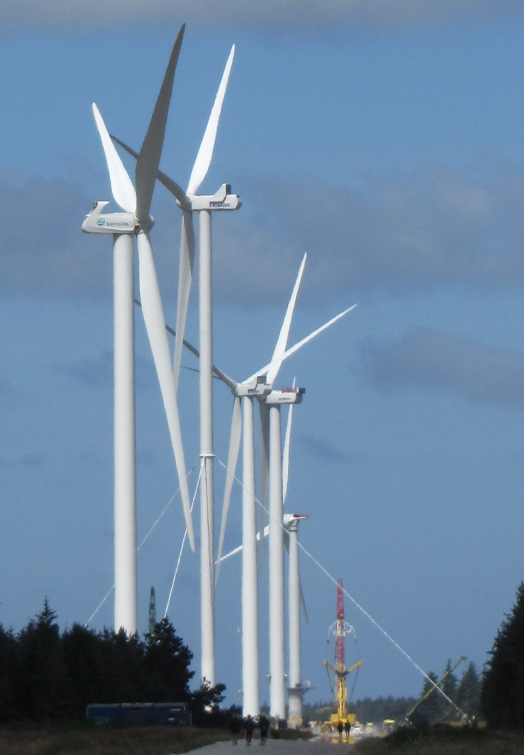 Some of the 7 turbines. The distance between them is about ½ mile - photo taken with strong telelense. The turbines are often changed to test new turbines.